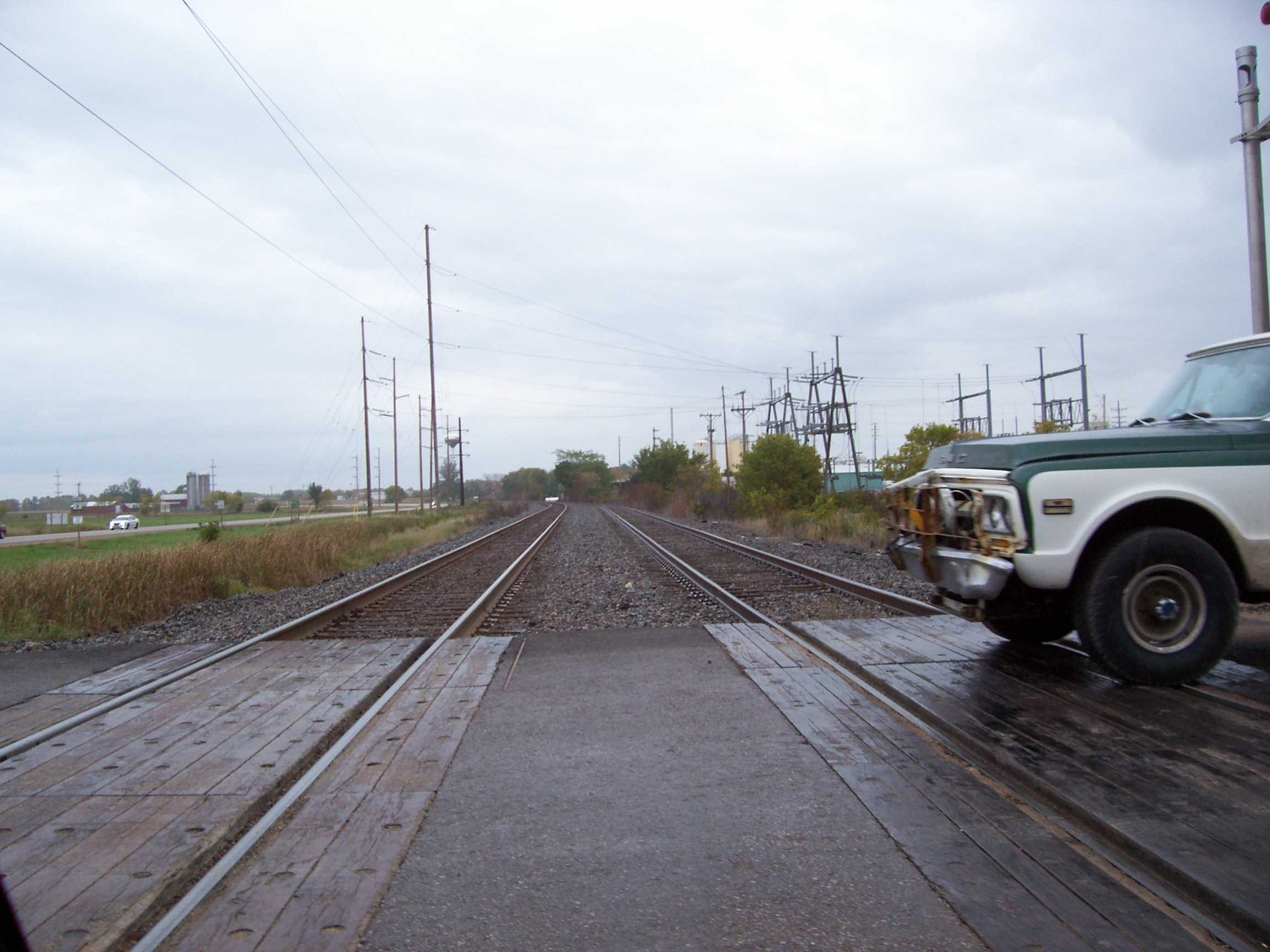 Looking west down the railroad tracks in Weyauwega, Wisconsin from Wisconsin Highway 100 (Mill St.), which was the site of the Weyauwega, Wisconsin derailment in 1996.